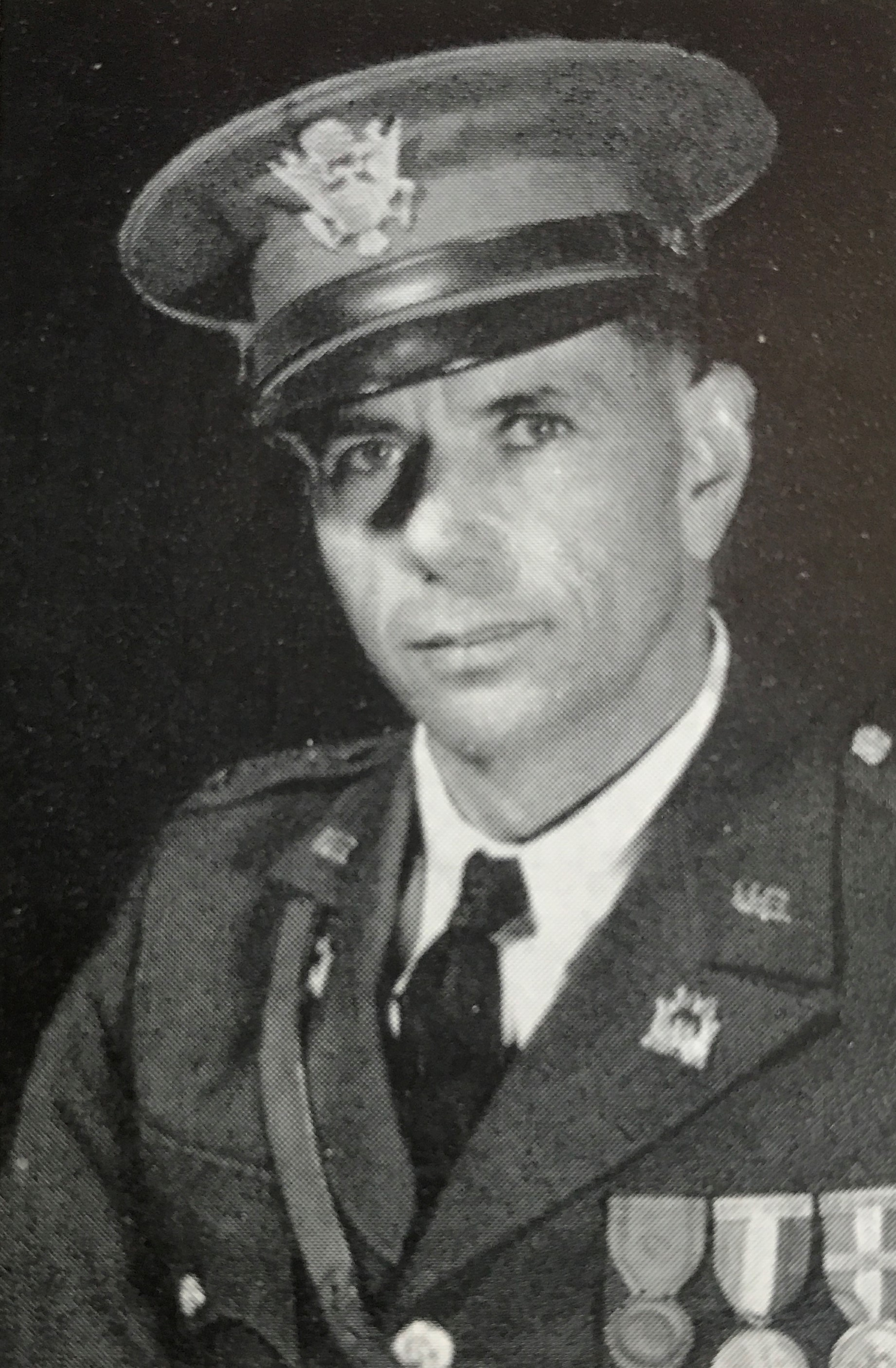 Herbert Marshall commanded Company E, 106th Engineers, of Apalachicola, circa 1939.